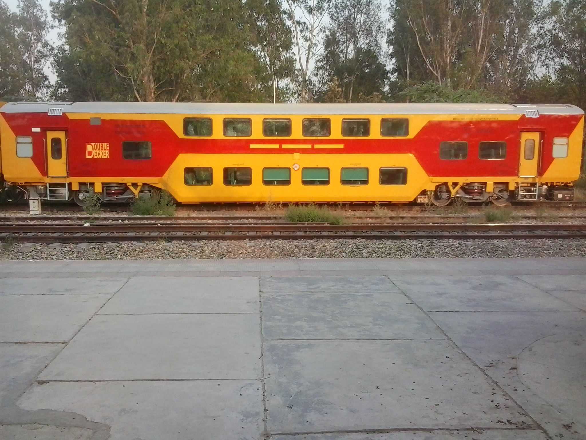 Double Decker coach standing at Hussainpur station made by RCF